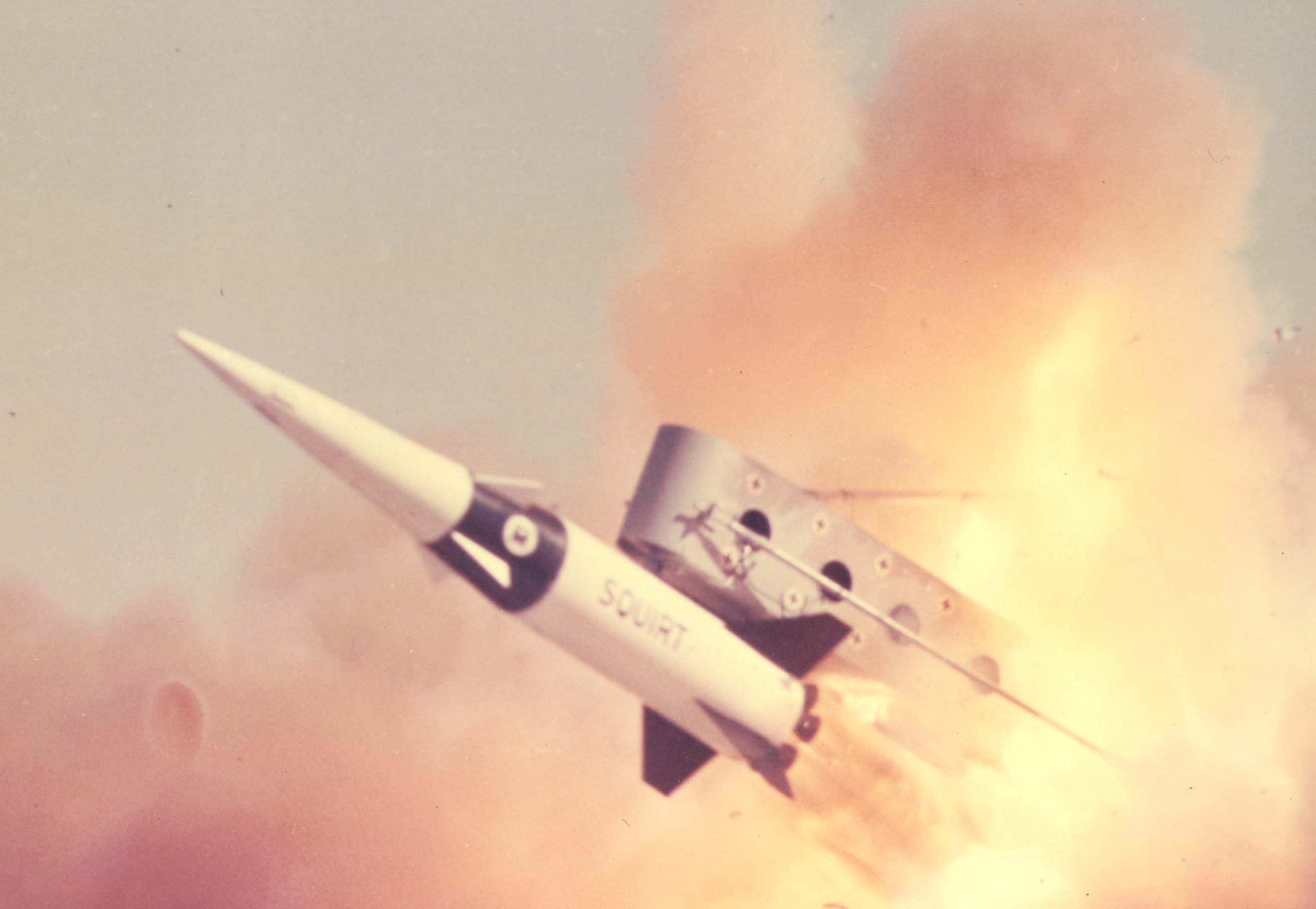 The Squirt missile was a sub-scale version of the Sprint missile used for testing. This is the last in a series of three photos showing the launch sequence at Launch Complex 37 in White Sands Missile Range.